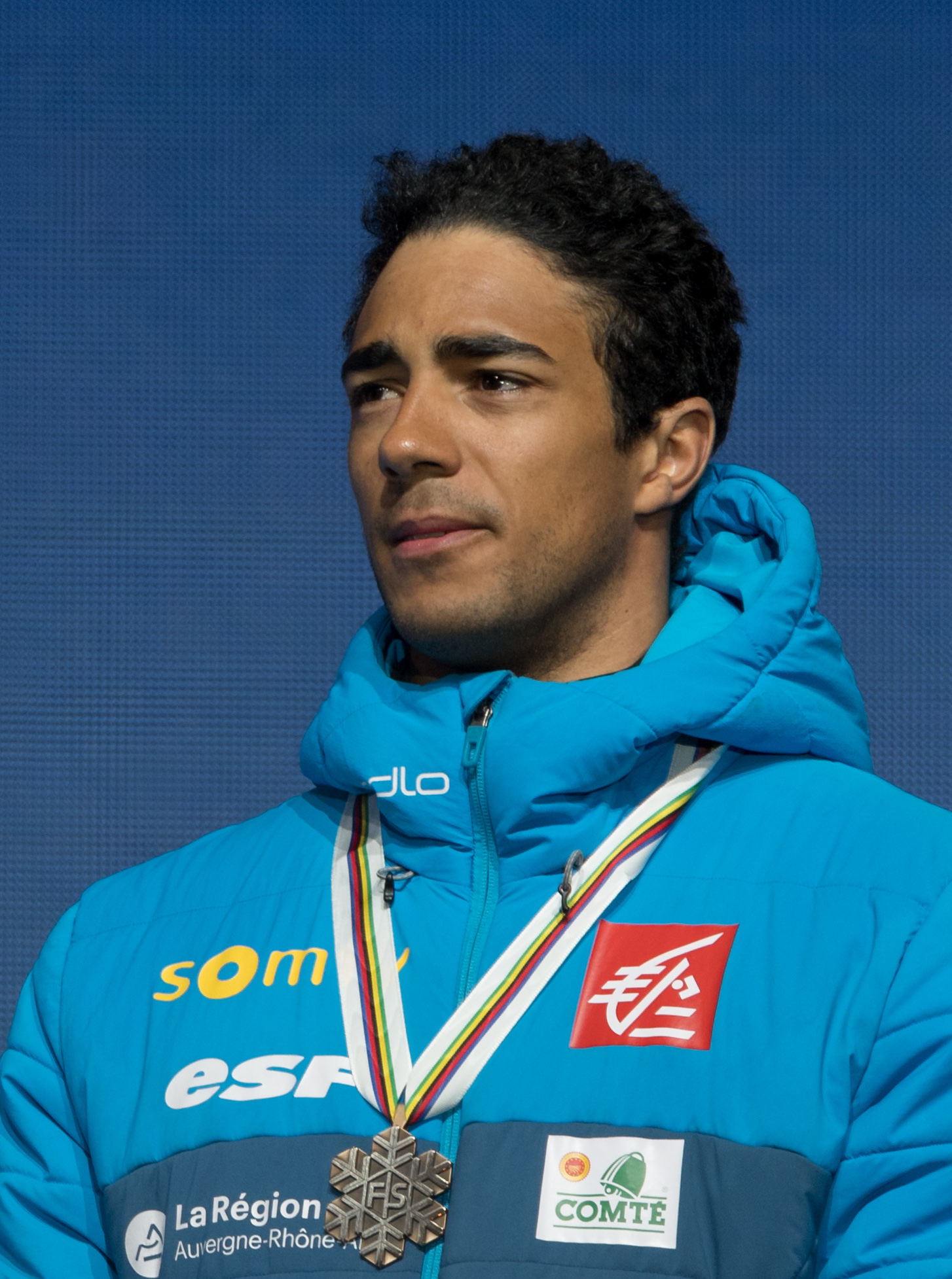 FIS Nordic World Ski Championships Seefeld 2019 - Medal Ceremony at the Medal Plaza. Picture shows Richard Jouve (FRA).